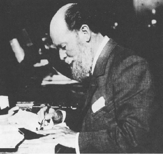 Peter Karl Fabergé (1846 – 1920)